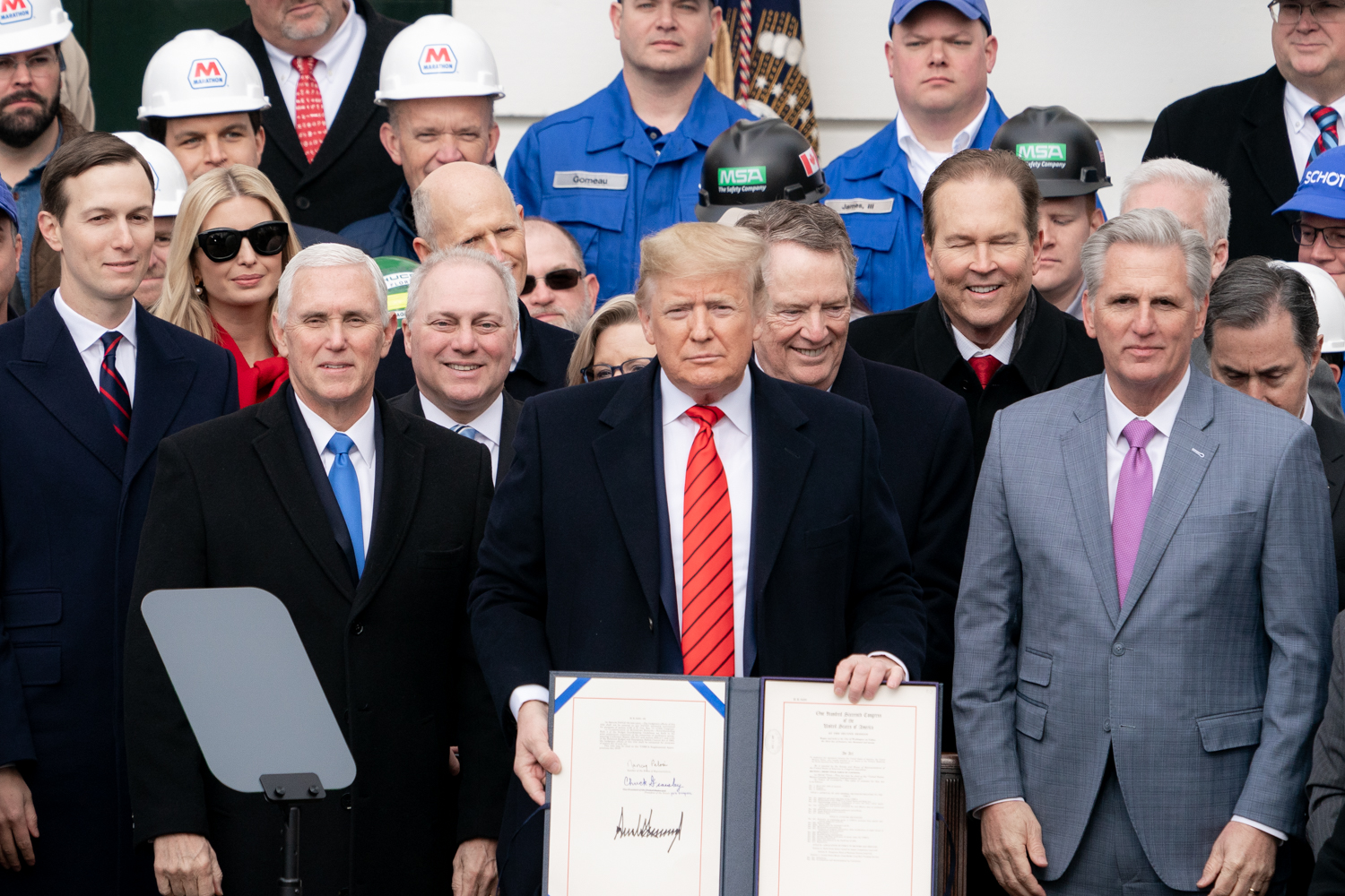 President Donald J. Trump, joined by Vice President Mike Pence and U.S. Trade Representative Robert Lighthizer, signs the United States-Mexico-Canada Trade Agreement Wednesday, Jan. 29, 2020, in front of the South Portico of the White House. (Official White House Photo by D. Myles Cullen)